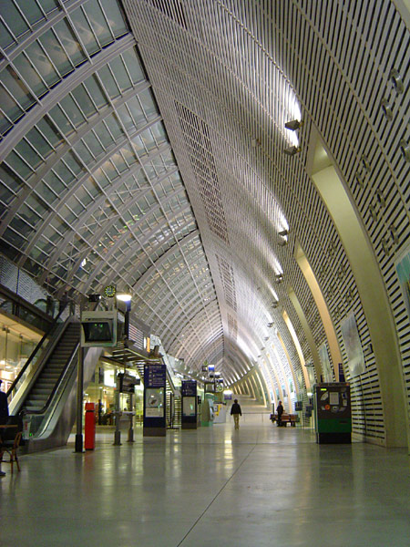 A photo of Avignon-TGV railway station.